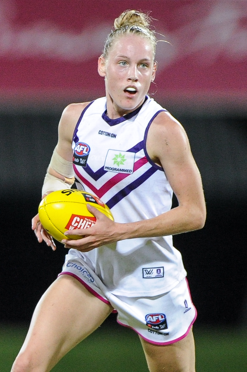 Stephanie Cain in the AFL Women's preseason match between the Adelaide Football Club and Fremantle Football Club on 20 January 2018 at TIO Stadium.